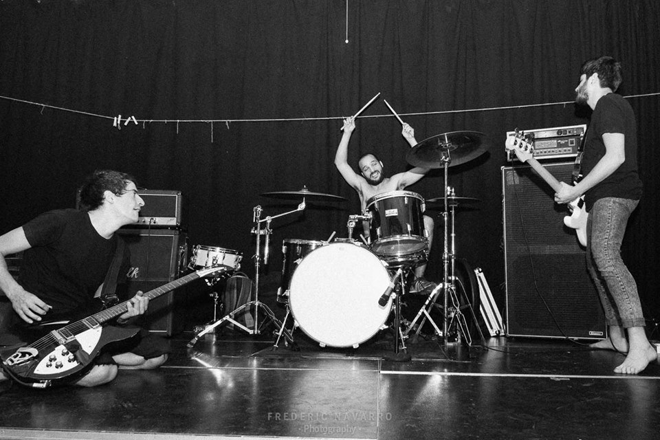 Hurricäde, 2015 / photo by Frederic Navarro